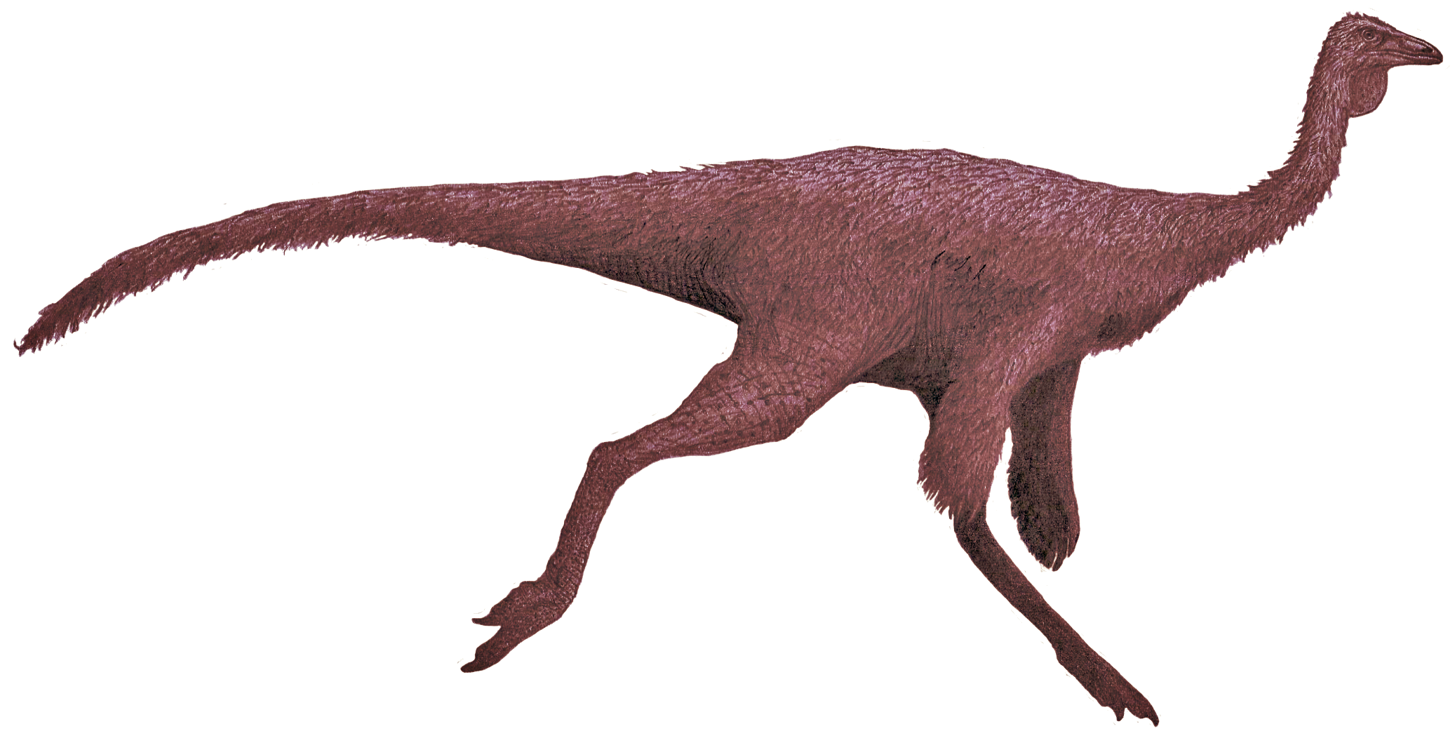 Life reconstruction of "Ornithomimus" sp. based on specimens from the Dinosaur Park Formation.